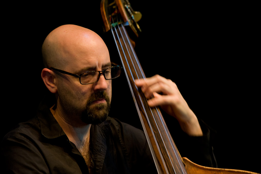 John Hébert at moers festival 2012